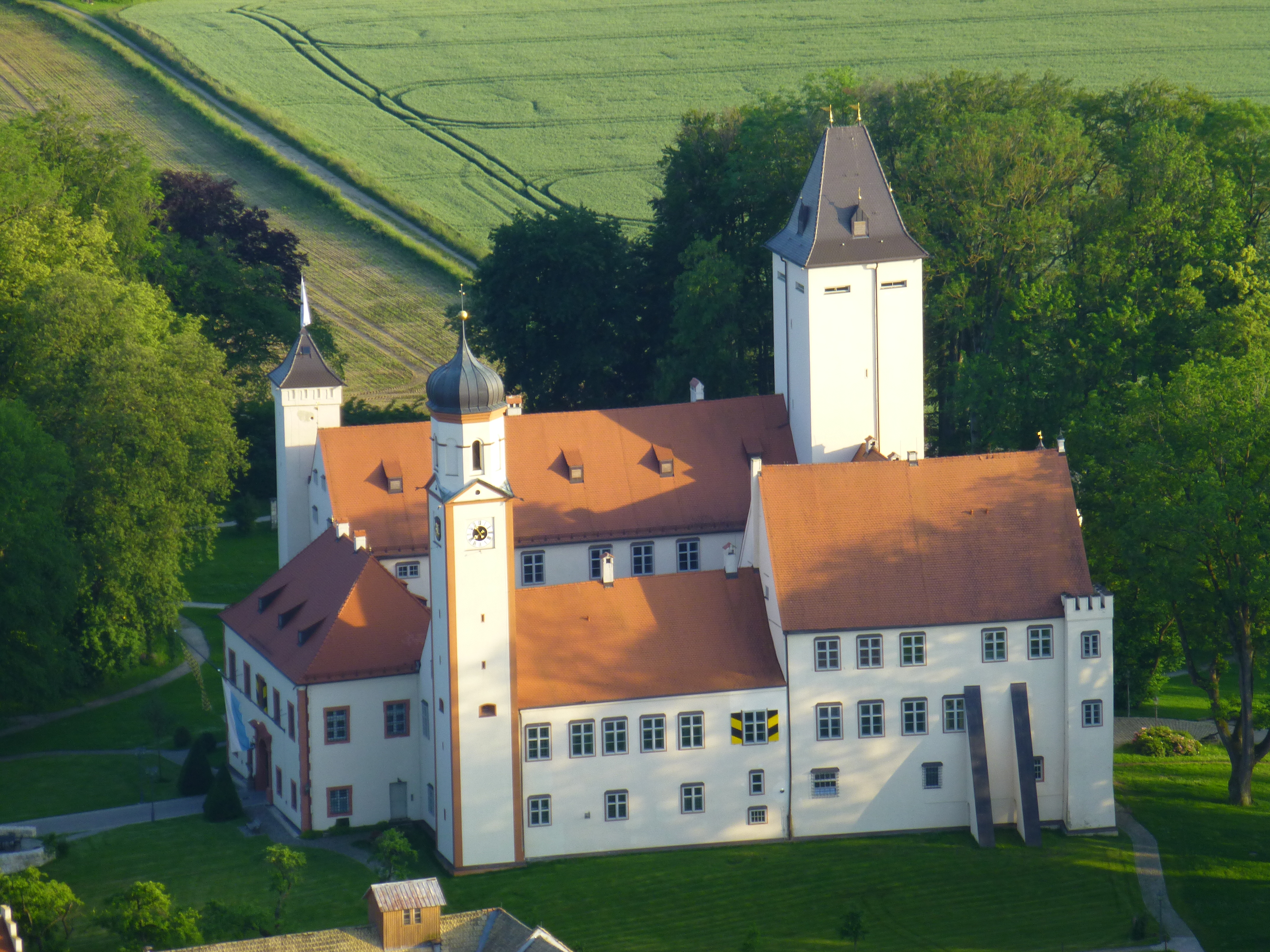 Nordostansicht des Schlosses